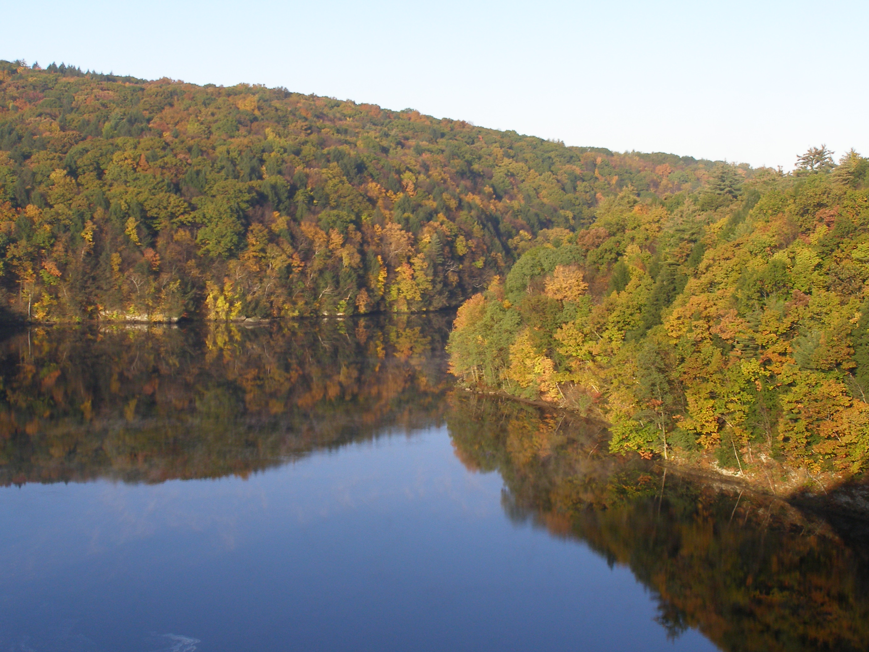 Fall foliage (indian summer) in Massachusetts, Connecticut River at the French King Bridge, Mohawk trail